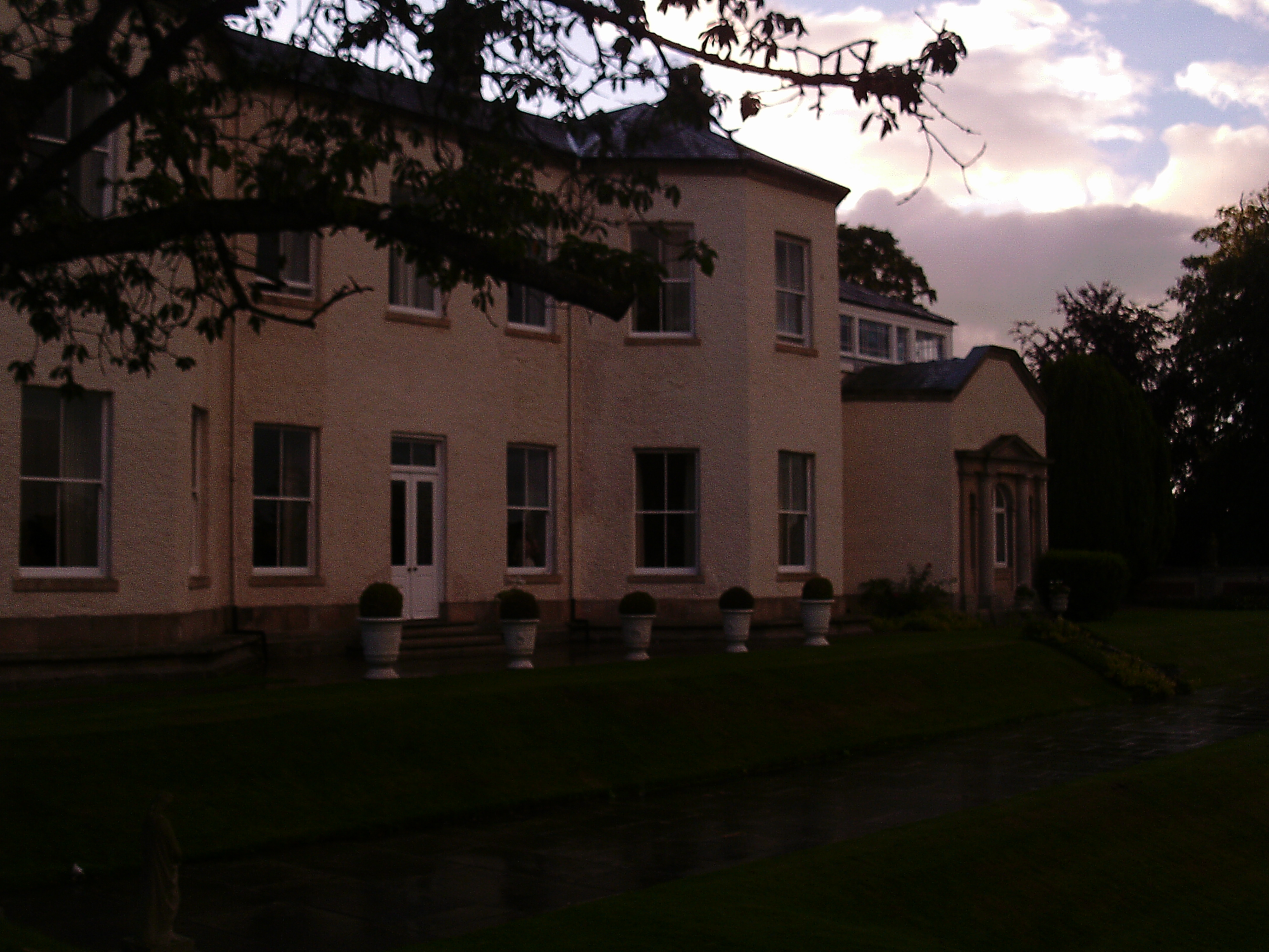 Lartington Hall is a mansion near Barnard Castle, County Durham, used mainly as a wedding venue.